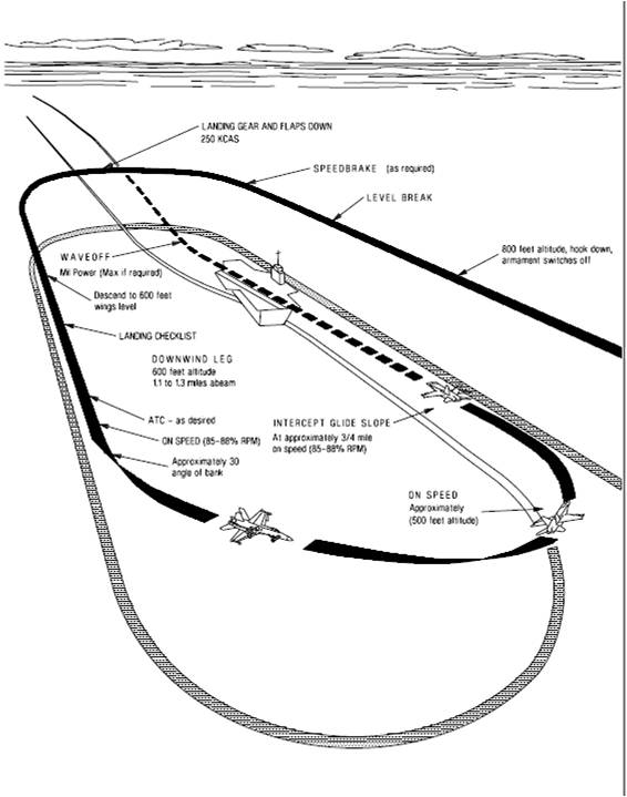 US Navy Day Case I landing pattern graphic from NATOPS manual.